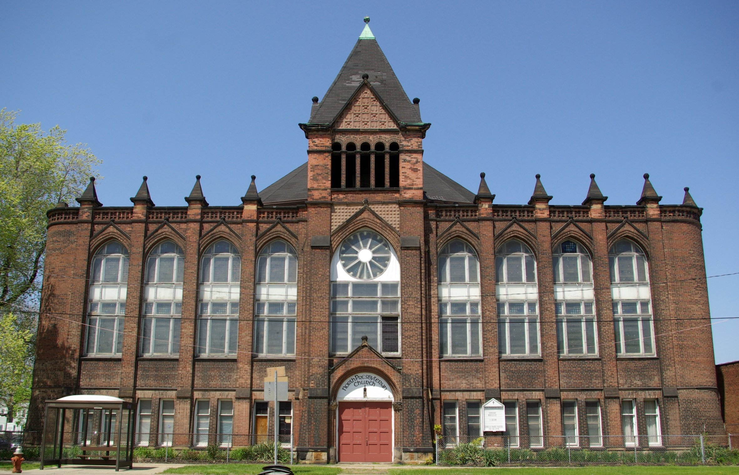 A view of North Presbyterian Church at 4001 Superior Avenue, in Cleveland, Ohio. The structure, built in 1887, was designed by Coburn and Barnum, architects. It is listed on the National Register of Historic Places.